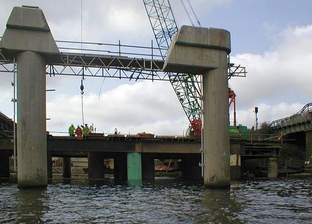 Here the old Surtees Bridge has been partially cut away and removed.